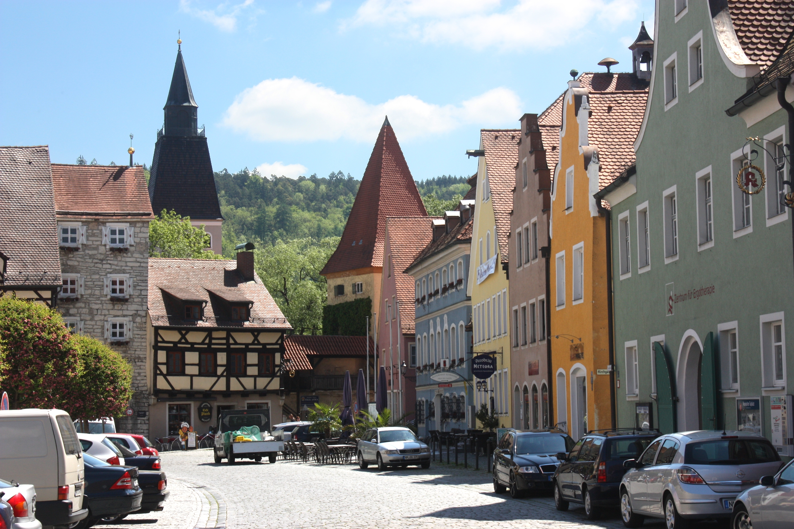 Das mittelalterliche Berching - Ensemble Pettenkoferplatz This is a photograph of an architectural monument.